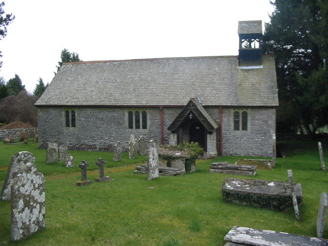 St Cynog's Church, Battle. This is the church in Battle village, near Brecon. The photographer great grandparents, great great grandparents and two great aunts are buried here.